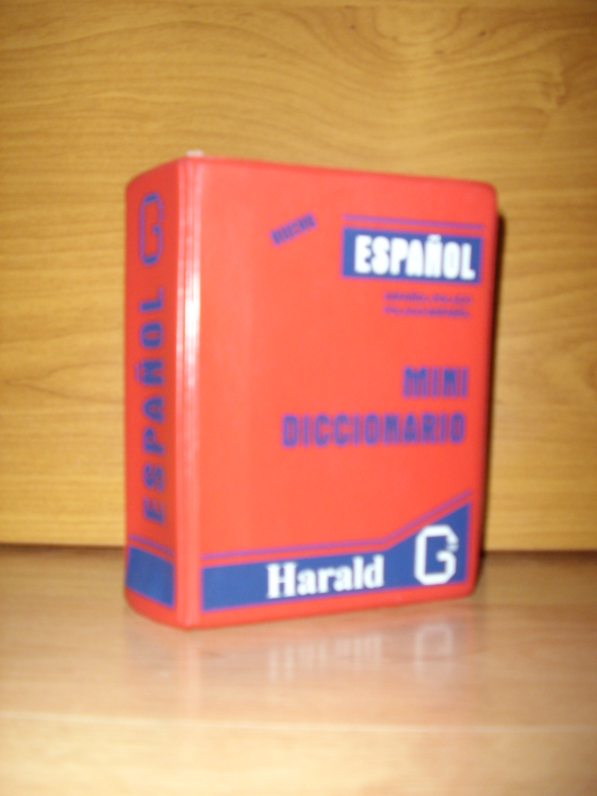 Polish-Spanish dictionary